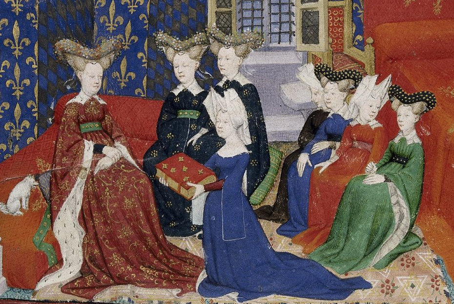 Detail of a presentation miniature with Christine de Pisan presenting her book to queen Isabeau of Bavaria. Illuminated miniature from The Book of the Queen (various works by Christine de Pizan), BL Harley 4431.